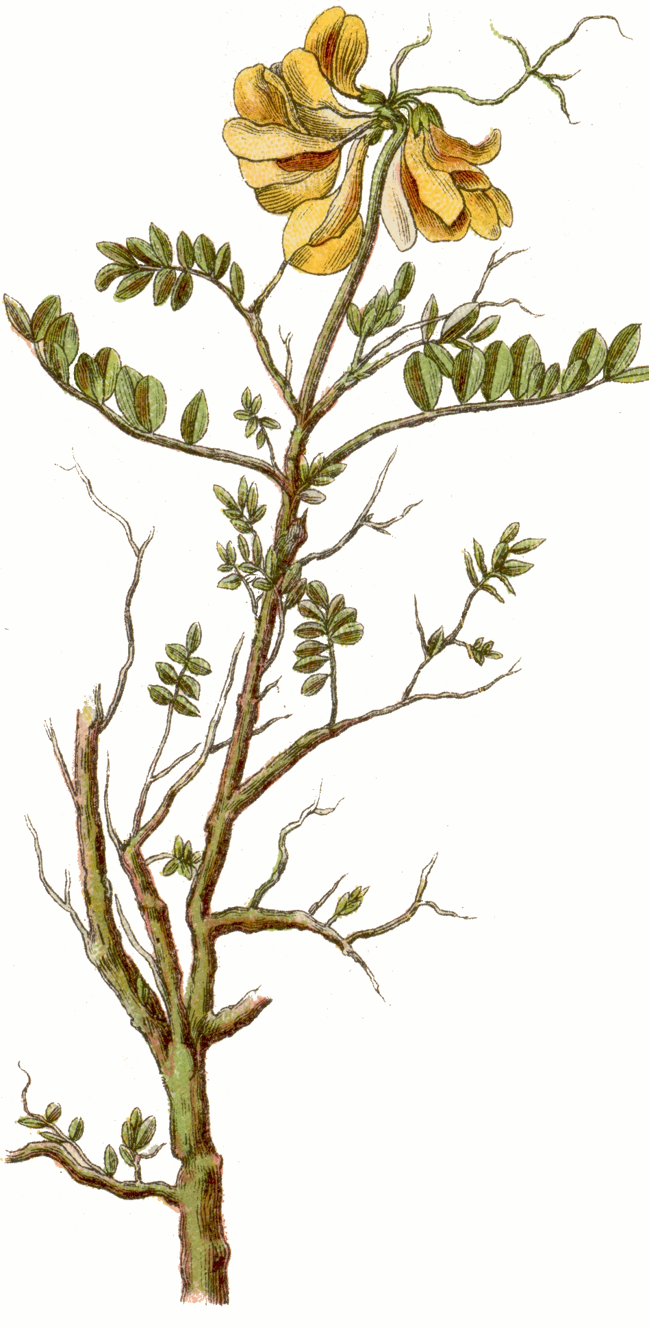 Original Caption Scheiden-Kronwicke, Coronilla vaginalis